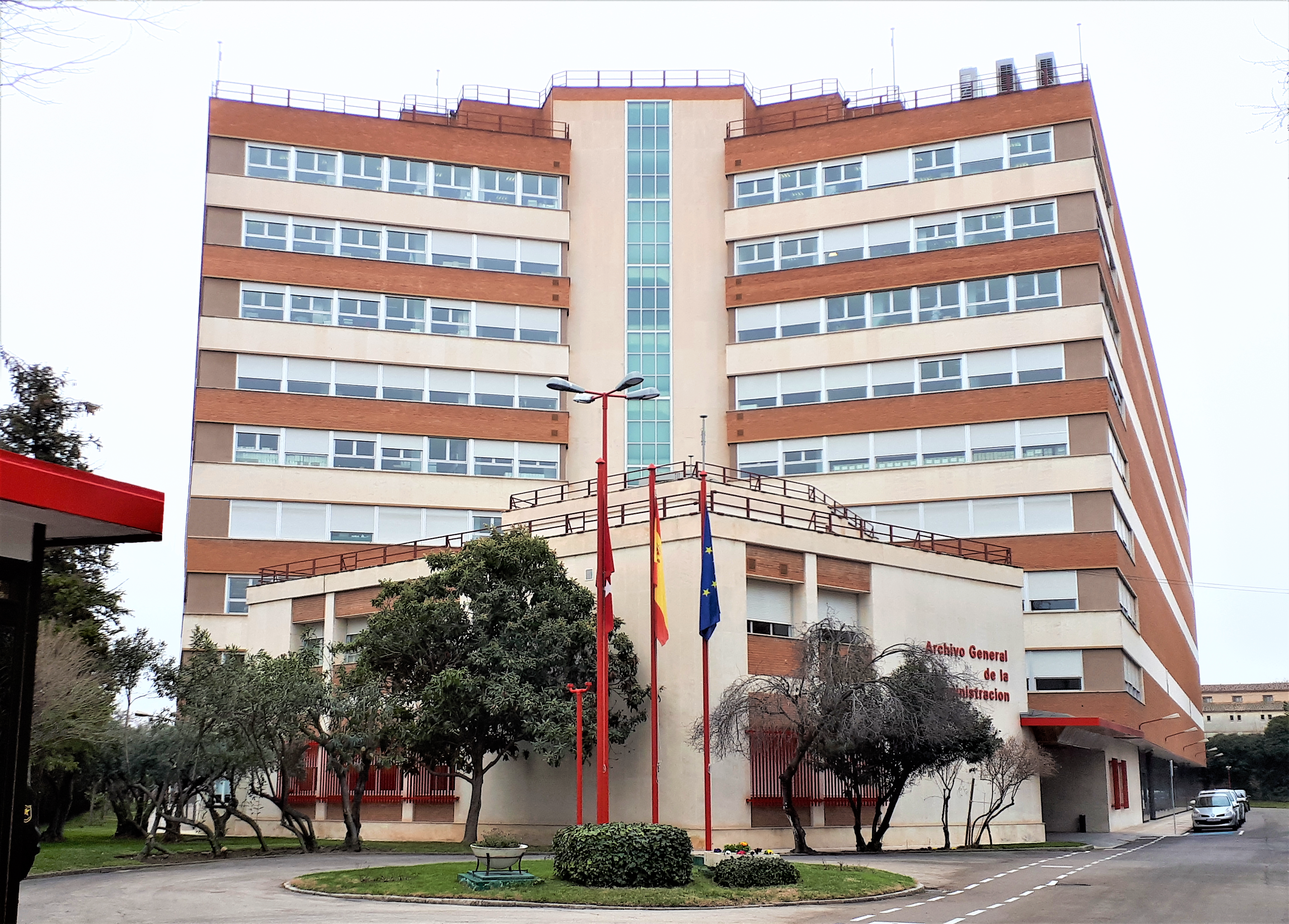 General Archive of the Administration of Spain, located in Alcalá de Henares (Community of Madrid - Spain).